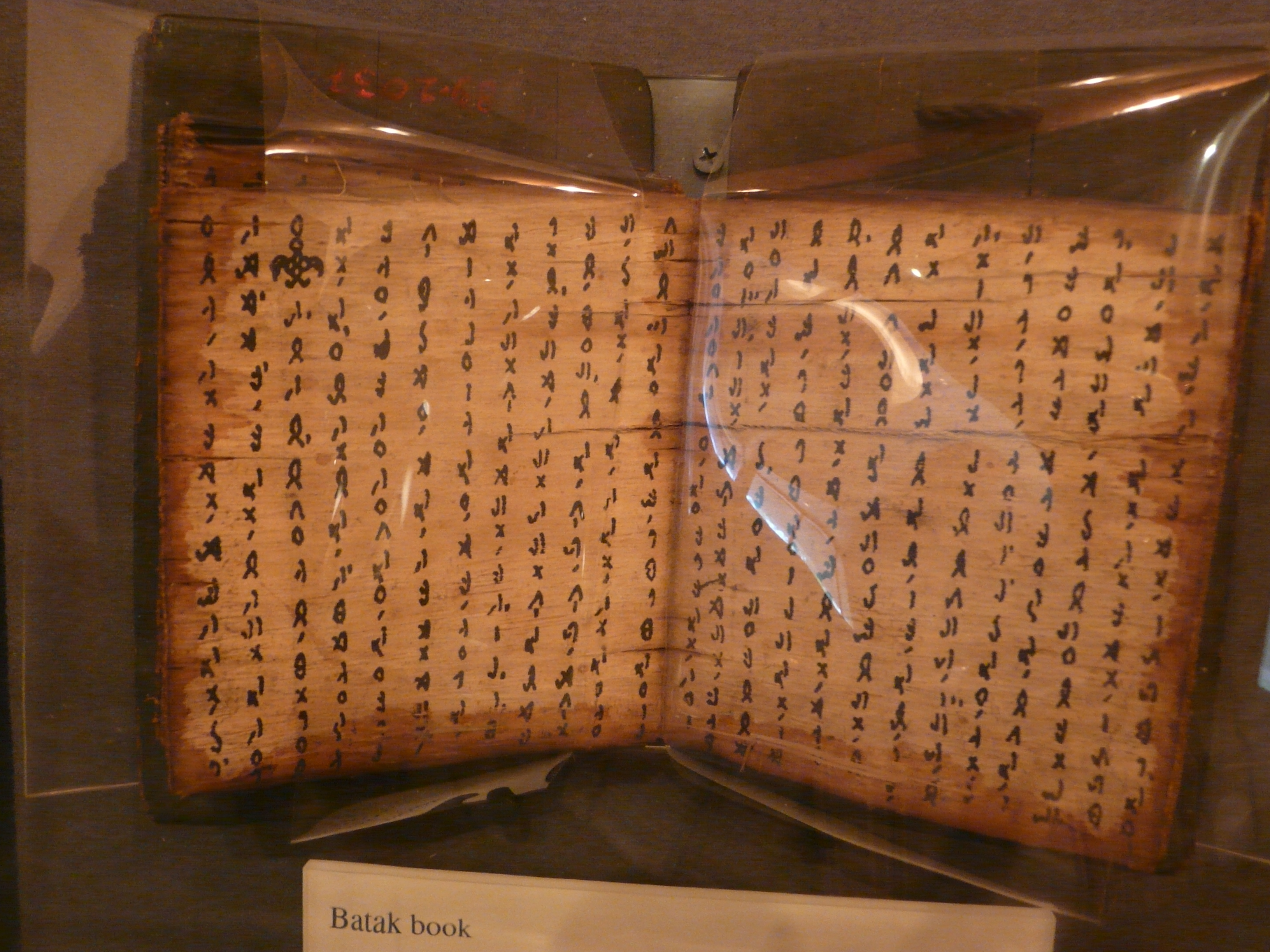 Robert C. Williams Paper Museum Batak book, concerning the art of divination from a rooster